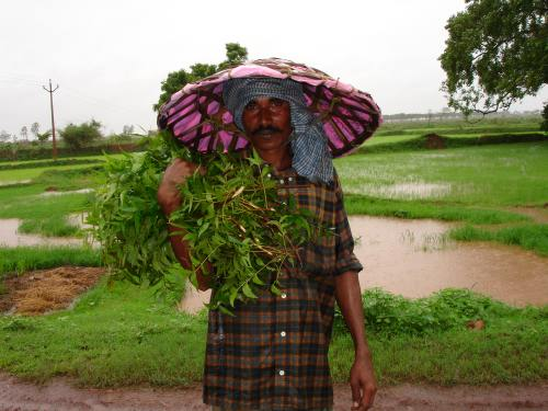 Native of Chhattisgarh with Neem leaves for Hareli Festival.